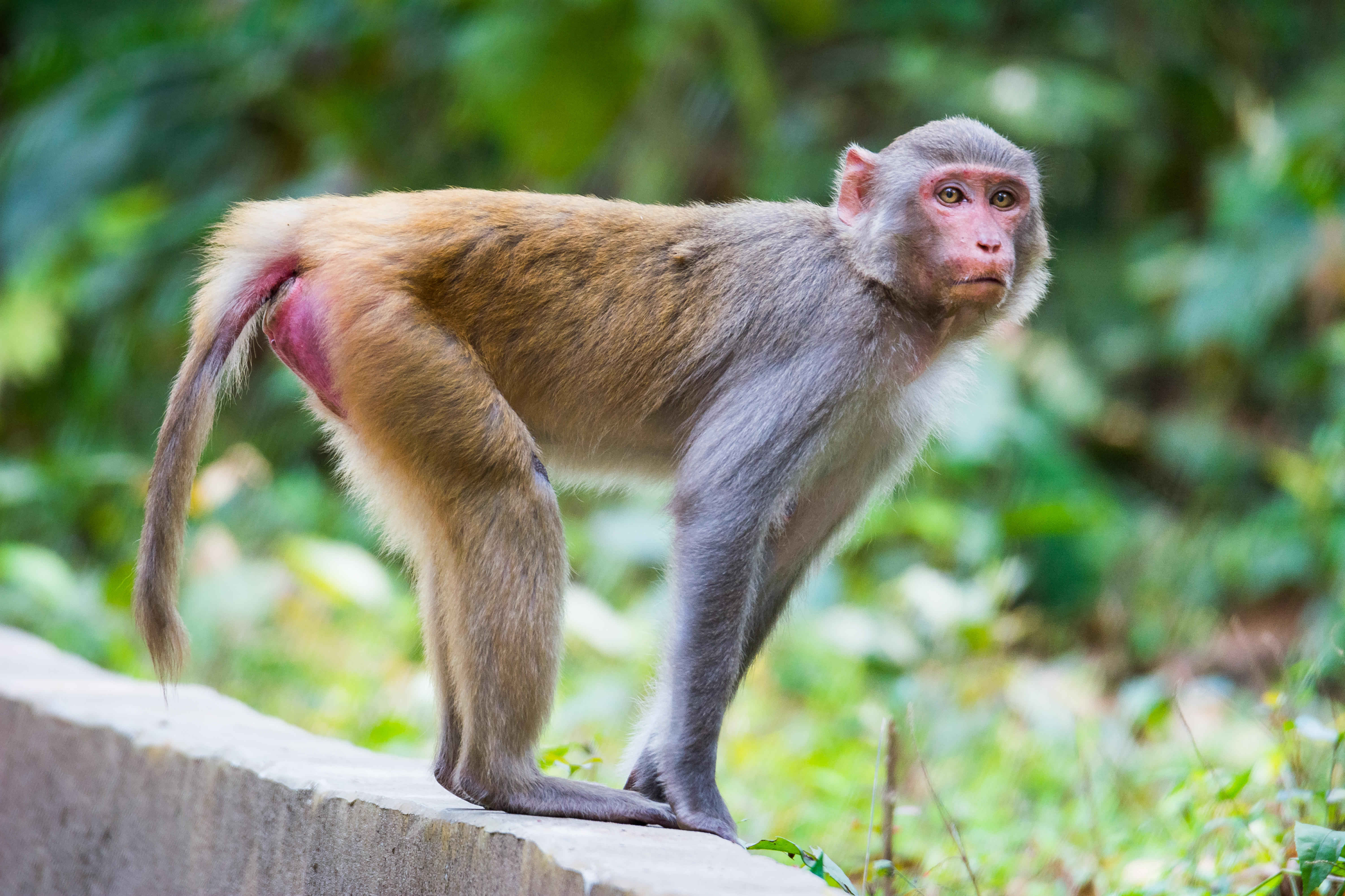 Rhesus macaque (Macaca mulatta) in Bangaldesh